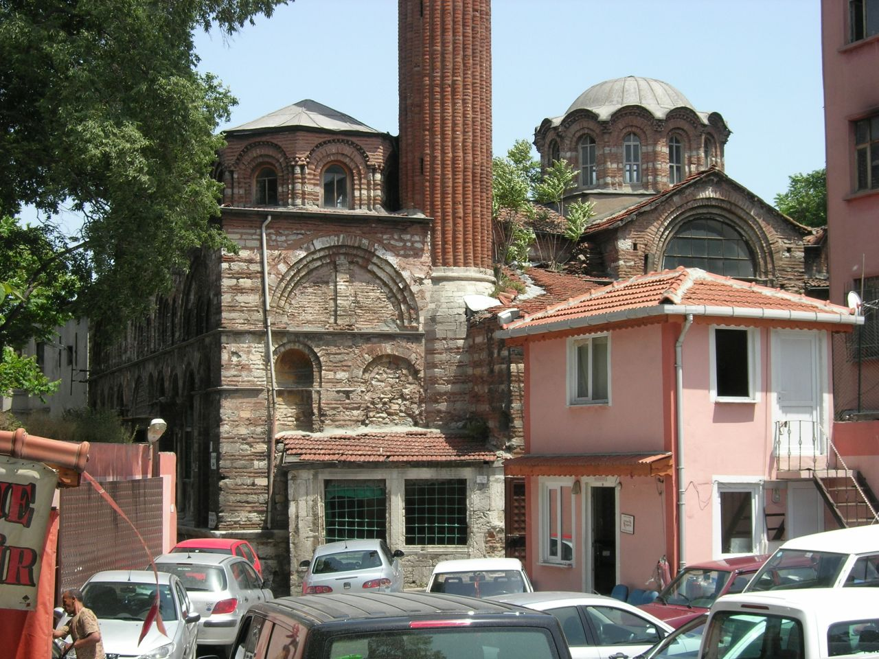 The Church Mosque of the Vefa in Istanbul viewed from S